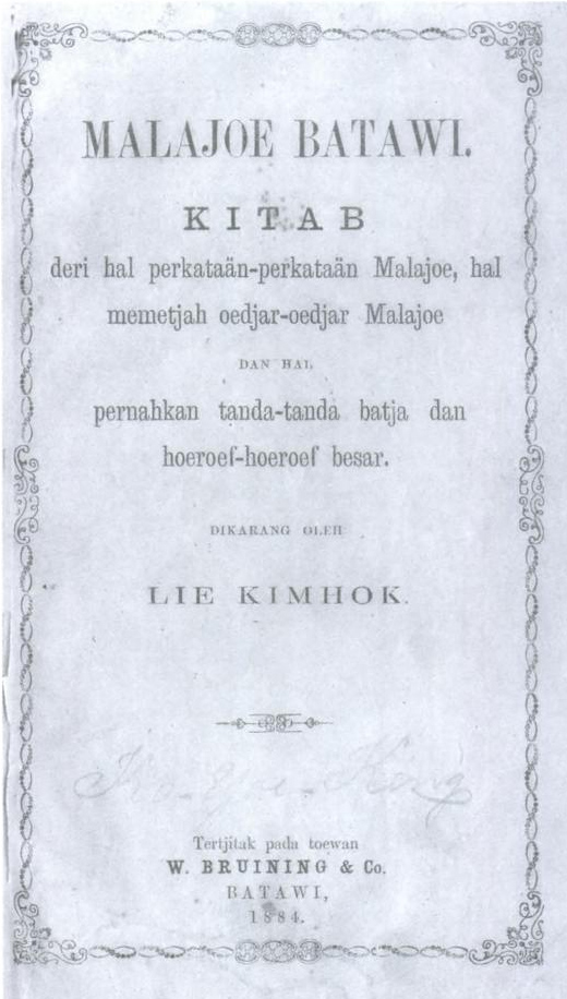 Book cover for Malayoe Batawi